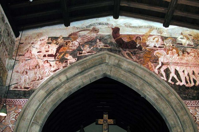 Church of England parish church of St James the Great, South Leigh, Oxfordshire: Doom painting.